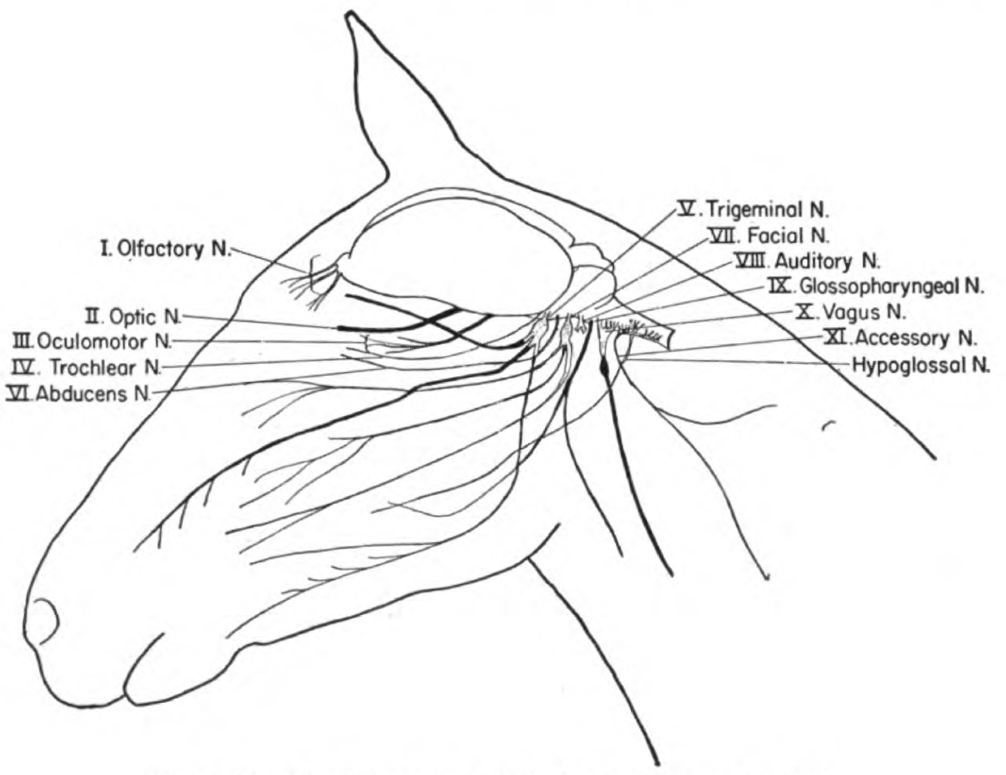 Cranial nerves of the horse, diagrammatic. Functional anatomy of the vertebrates. . Quiring, Daniel Paul, 1894-1958.